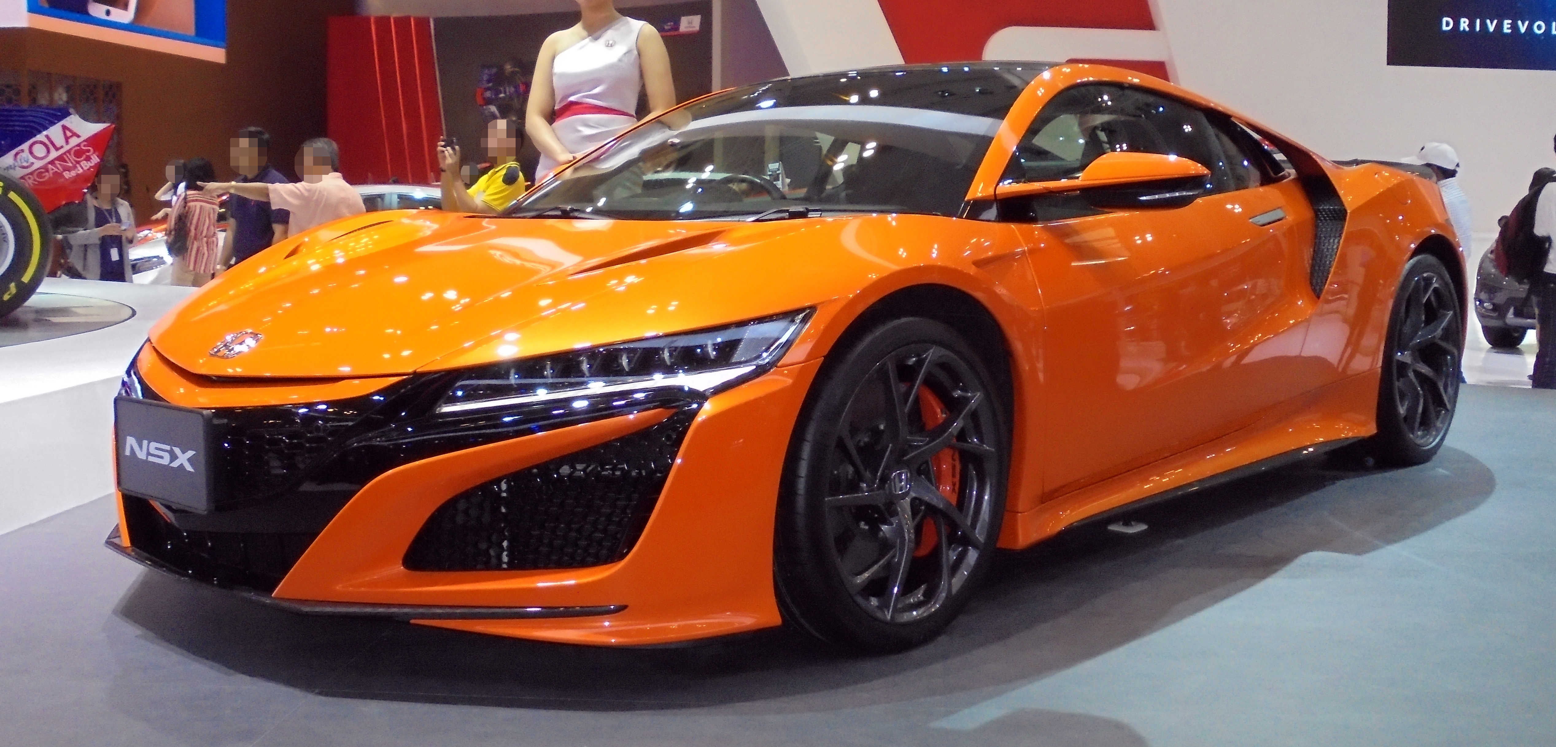 2019 Honda NSX 3.5 (CAA-NC1)